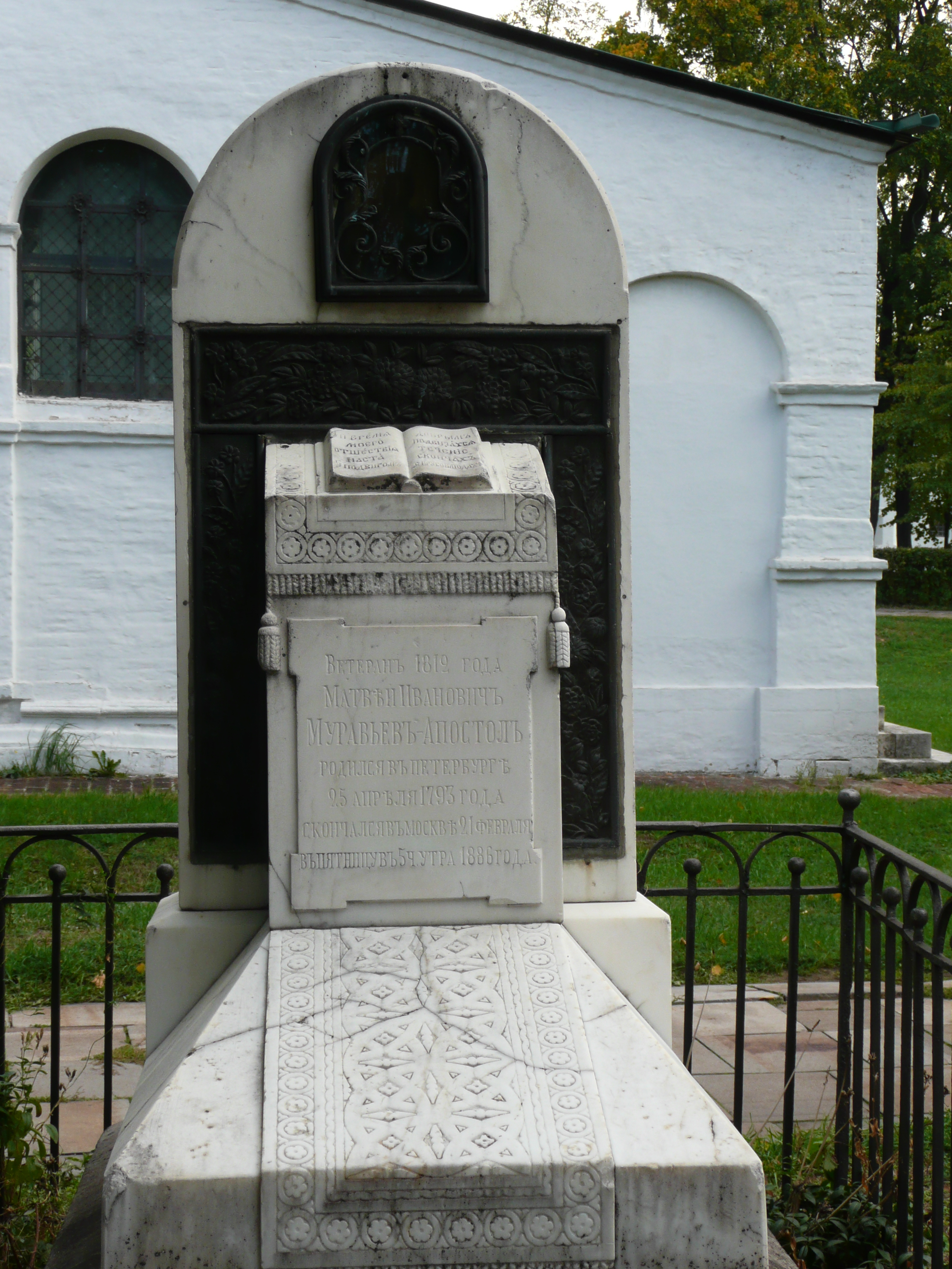 Tomb of Matvei Muravyov-Apostol at the Novodevichy Convent, Moscow